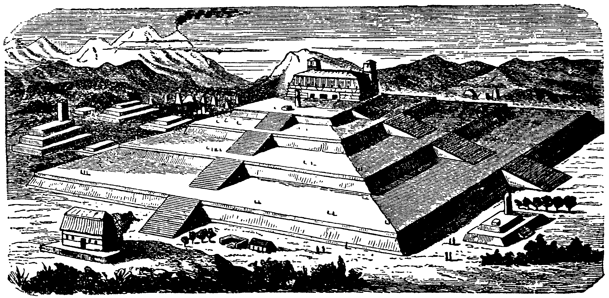 Teocalli at Cholula